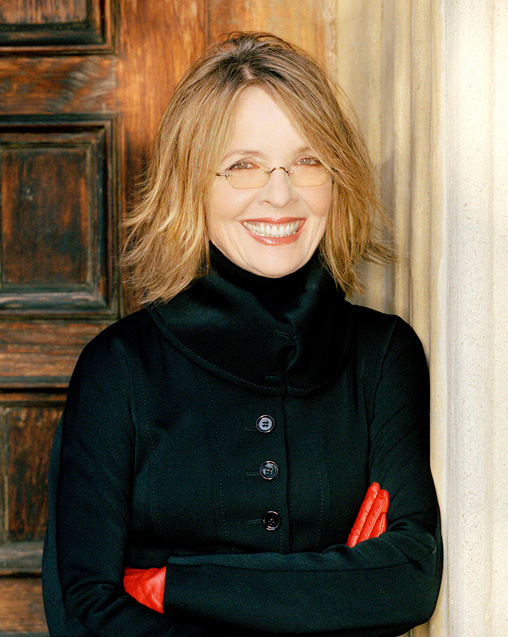 Diane Keaton